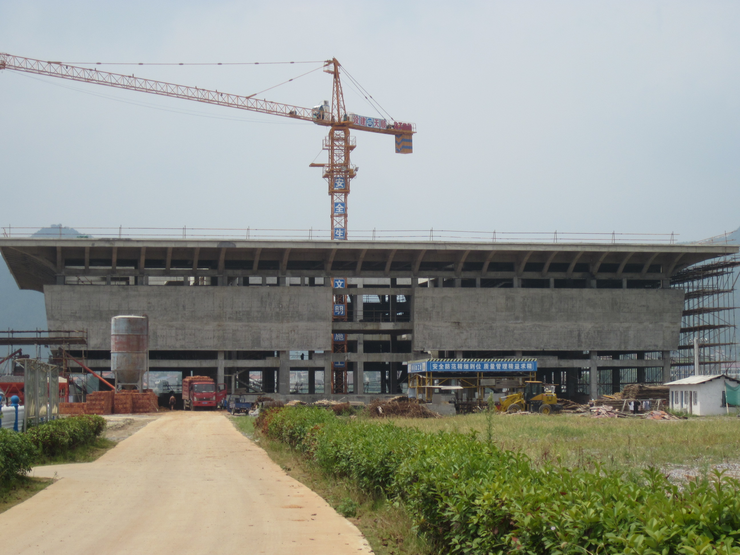 Museum of Tanheli Ancient Ruined Site,is located in Ningxiang County,Hunan Province,China.中文（中国大陆）: 炭河里青铜文化博物馆，位于湖南省长沙市宁乡县黄材镇。